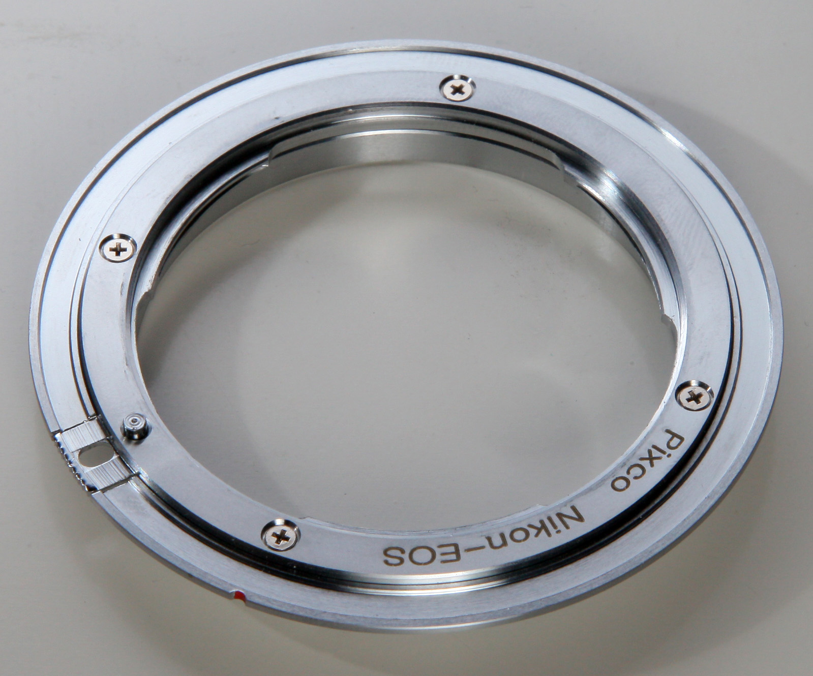 Nikon F to Canon EOS lens adapter